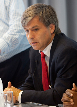 James Thellusson (Glasshouse Partnerhsip) & Harold Mayne Nicholls (Chilean FA and FIFA)